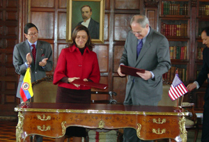 Image of Maria Consuelo Araujo meeting US official.